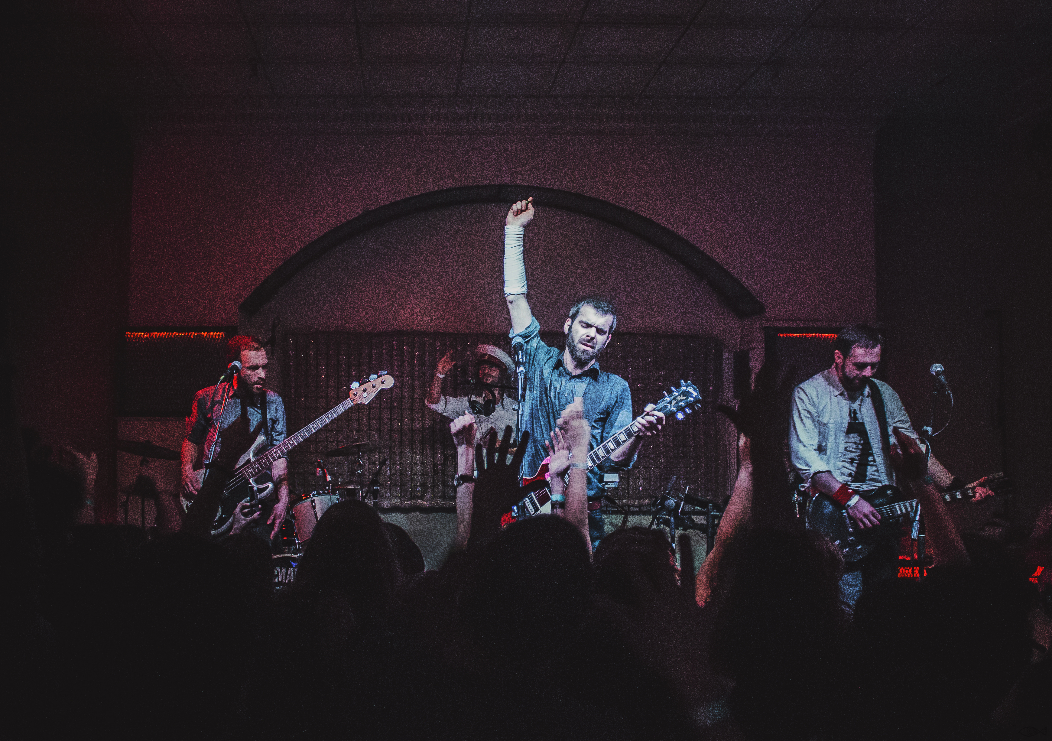 Robin and the Backstabbers at their first concert of 2014, on 6th of March @ Control Club, Bucharest.